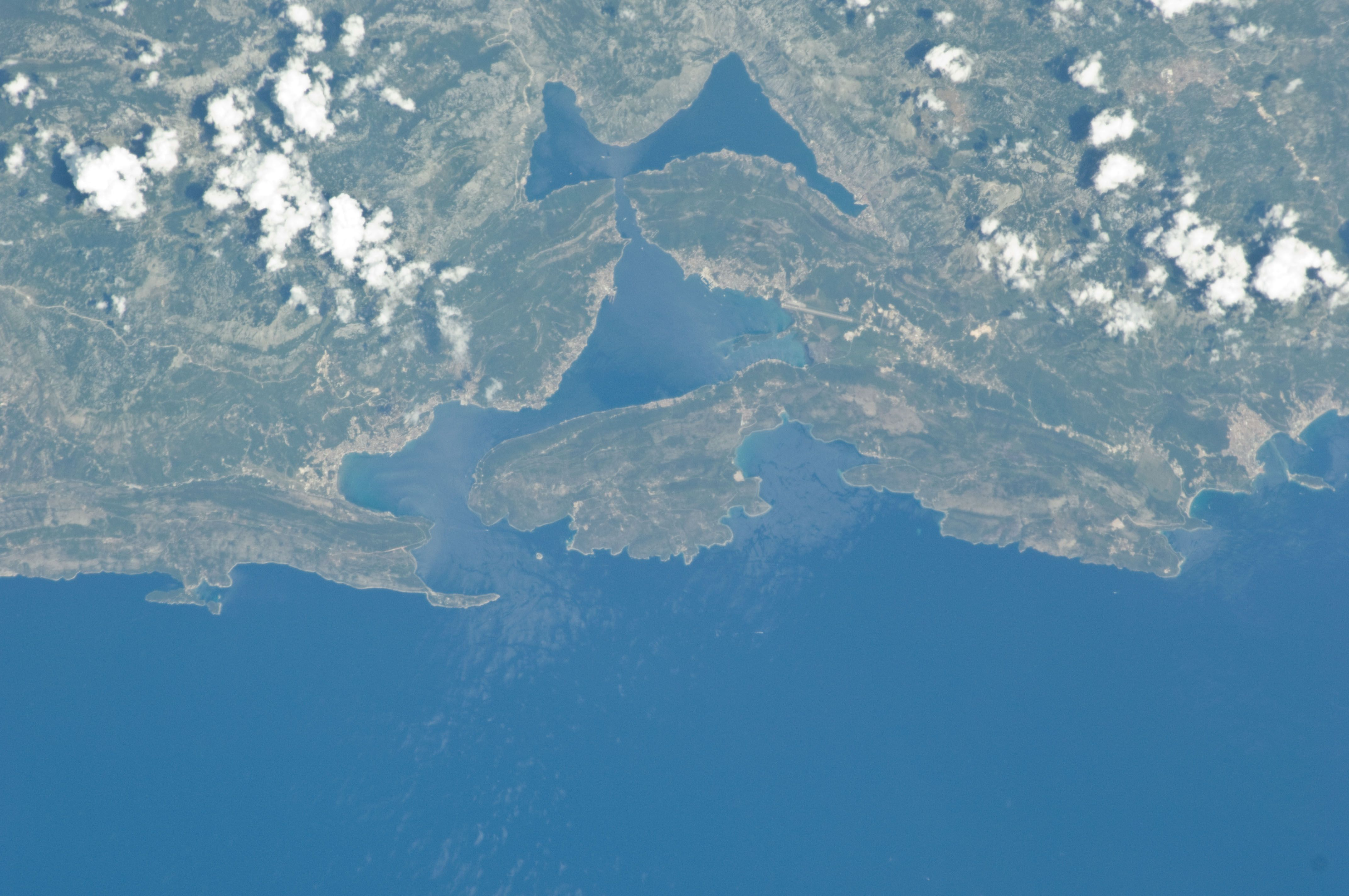 Boka Kotorska and surrounding areas